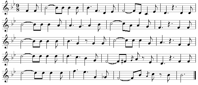 Notes of the German commercium song. I created the picture myself on 22 Feb 2006 by using capella 2000 and hereby release it into the public domain: --Gardini 22:49, 11 June 2006 (UTC)